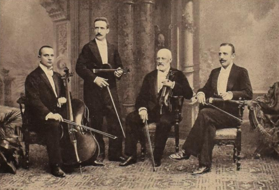 Triest string quartet of 1890-ies: Arturo Cuccoli (cello), Guido Eckhardt (2nd violin), Julius Heller (1st violin), Menotti Bemporat (viola)